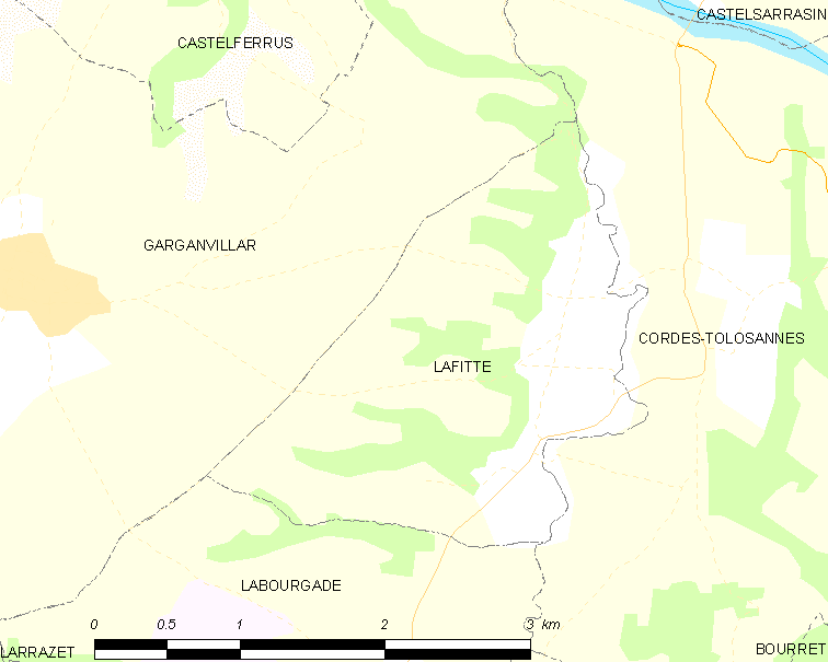 Map of French municipality Lafitte